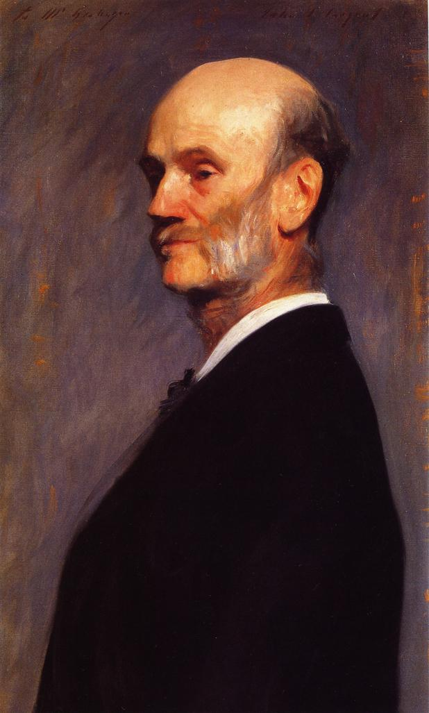 Hercules Brabazon Brabazon John Singer Sargent -- American painter 1893 National Portrait Gallery, London Oil on canvas 73.3 x 43.1 cm (28 7/8 x 17 in.) Inscription: (Upper left:) to Mr Brabazon (Upper right:) John S. Sargent signed Assession: NPG 5706P Jpg: .the-athenaeum